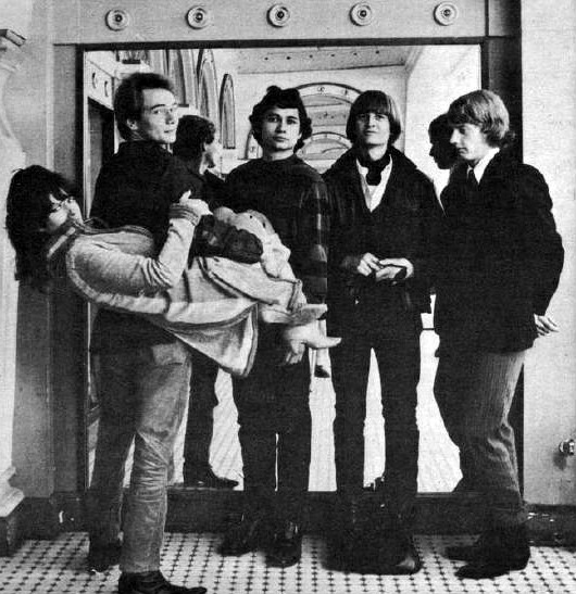 Photo of the music group The Great Society. From left-Grace Slick, Jerry Slick (carrying Grace), David Miner, Bard Dupont, and Darby Slick. Grace Slick began her musical career with the band. Her ex-husband, Jerry, and former brother-in-law, Darby, were also members. Darby Slick is the author of "Somebody to Love", which became a hit for Grace and her new band, Jefferson Airplane.